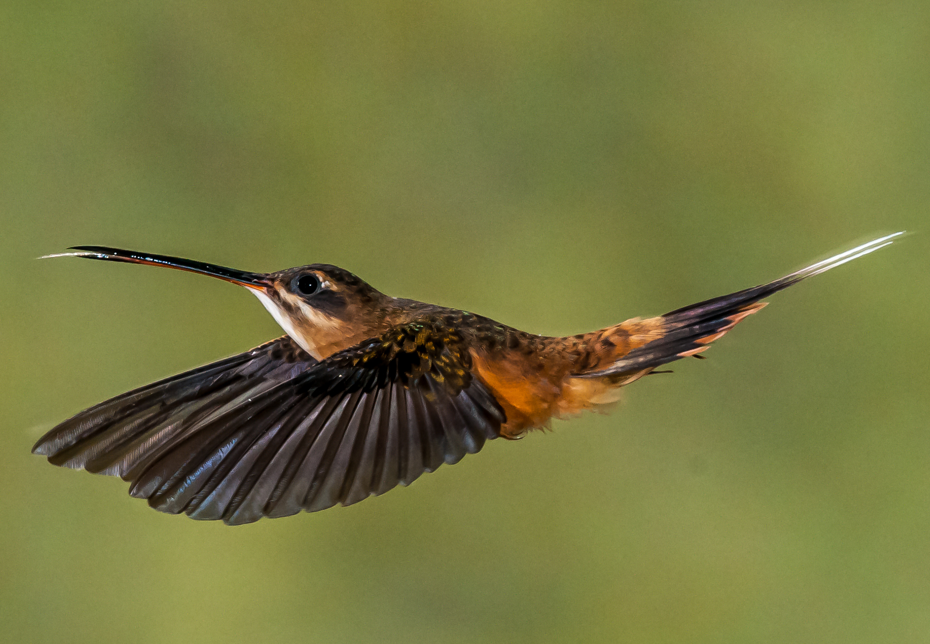 Rare Koepcke's Hermit Hummingbird, found only in Peru.